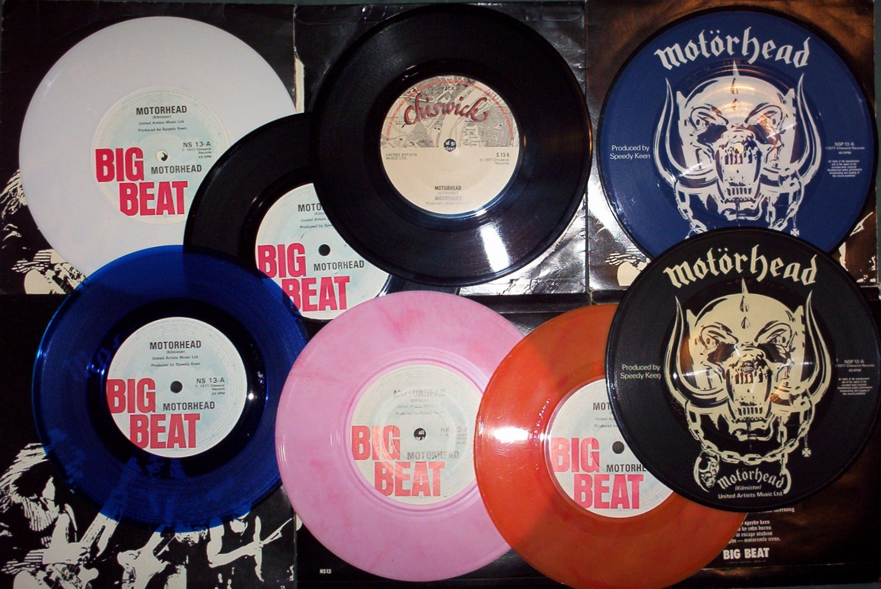 Photograph of various coloured vinyl and picture disc editions of Motörhead's single, "Motörhead", taken July 20, 2007.